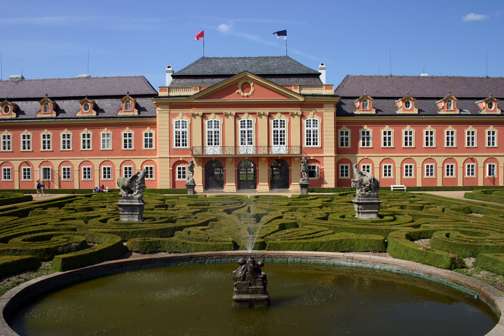 Dobris Castle (Czech Republic)